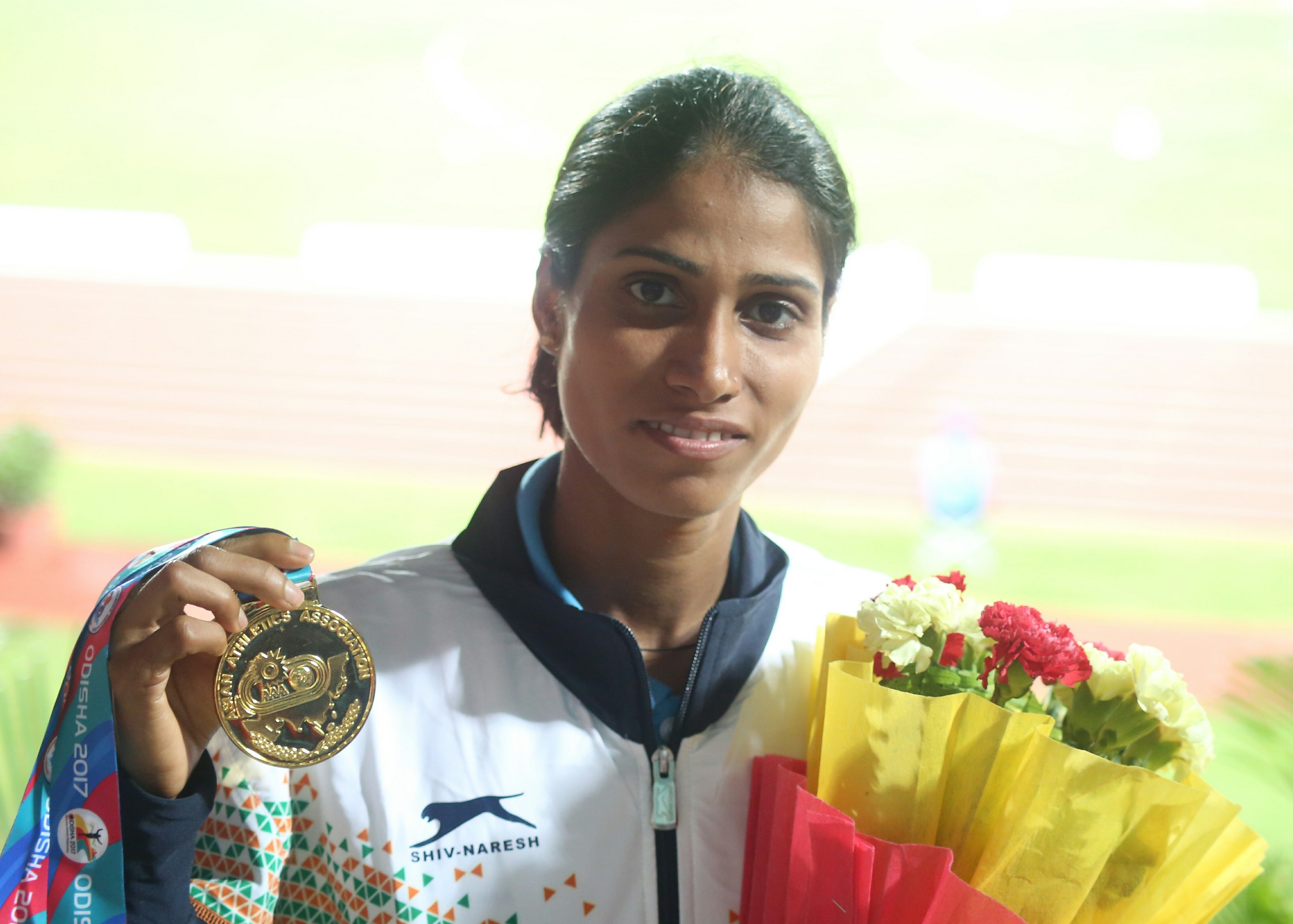 2017 Asian Athletics Championships at the Kalinga Stadium in Bhubaneswar, India